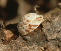 Anguispira picta USFWS photo